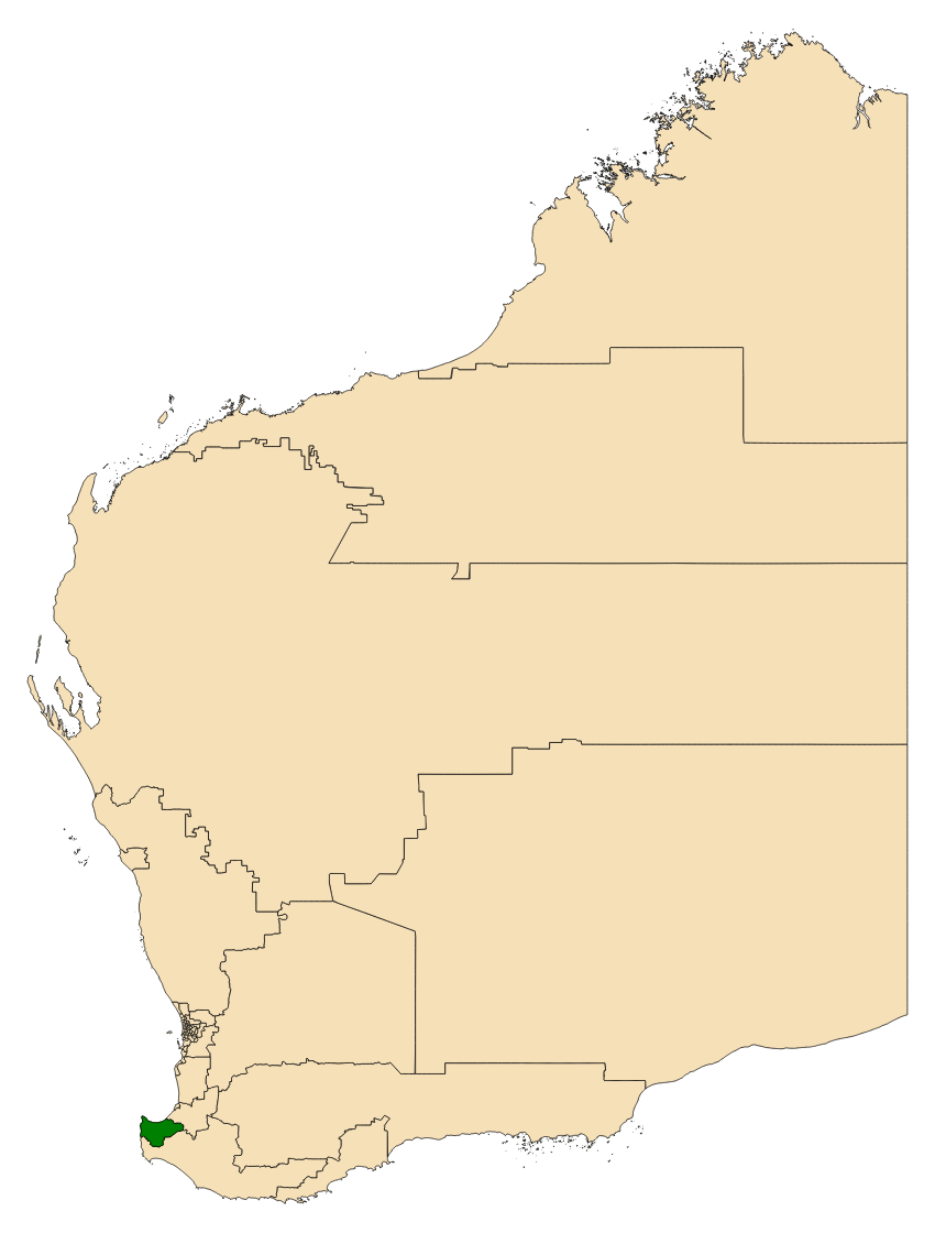 Location of the electoral district of Vasse in Western Australia as of the 2017 WA state election.